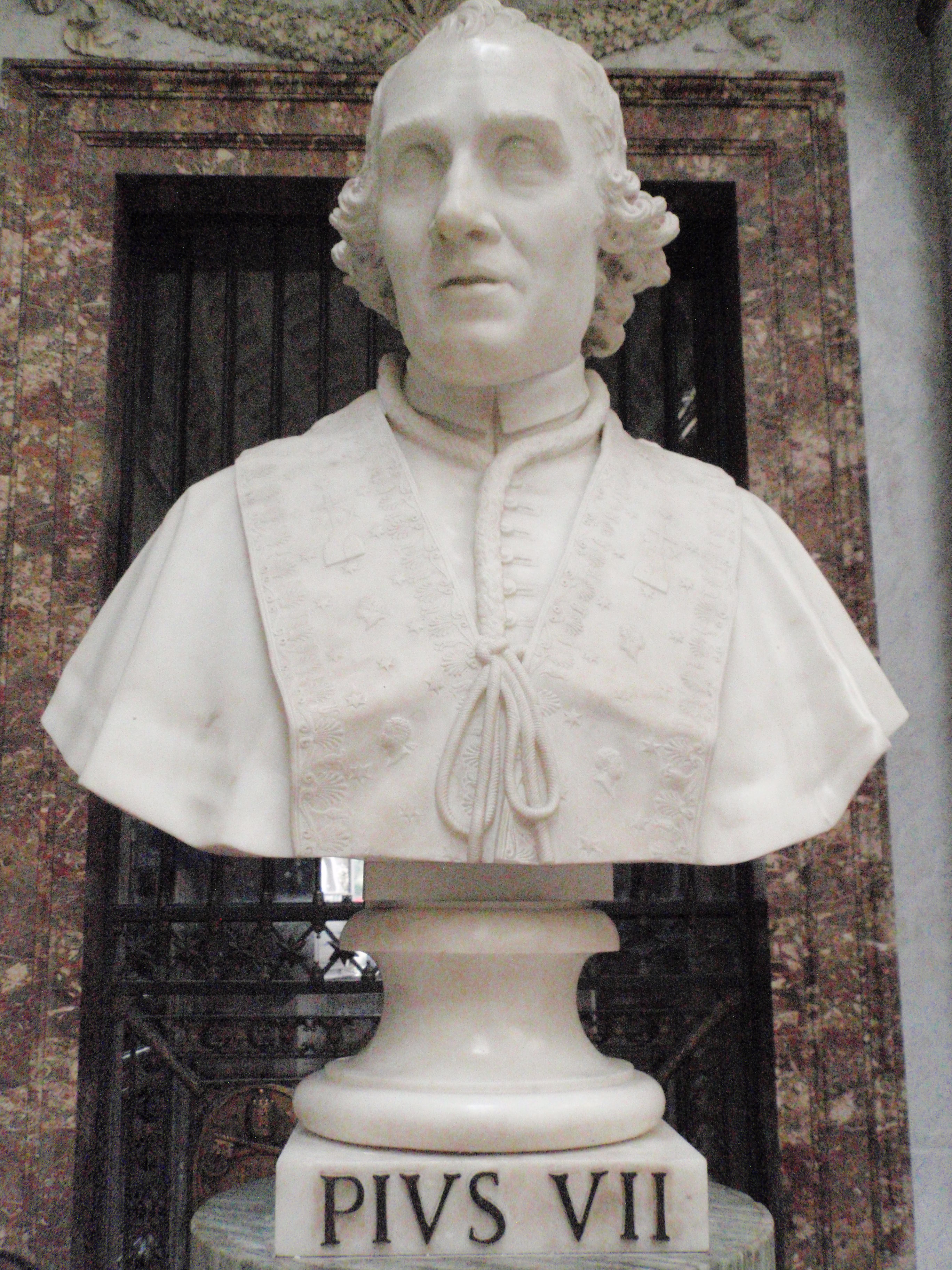 Pope Pius VII in the Bust Gallery of the Vatican Museums (Galleria dei Busti of the Museo Pio-Clementino).